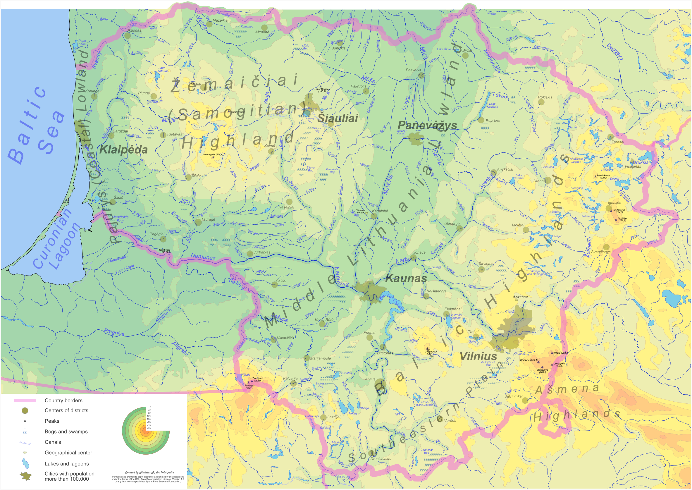 Physical map of Lithuania. Click on the image for better resolution.